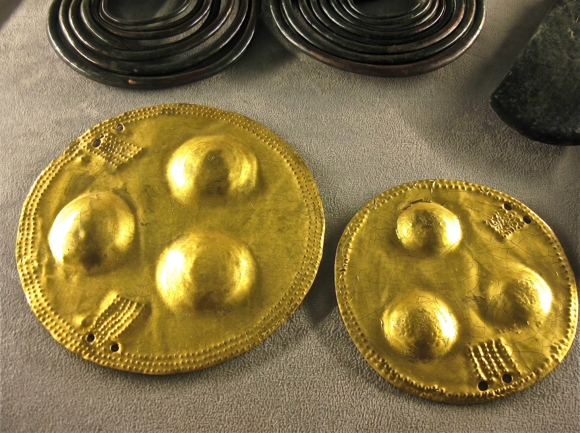 Chalcolitjic hoard of copper and gold objects, c4000Bc from Stollhof in Lower Austria in the Naturhistorisches Museum, Vienna